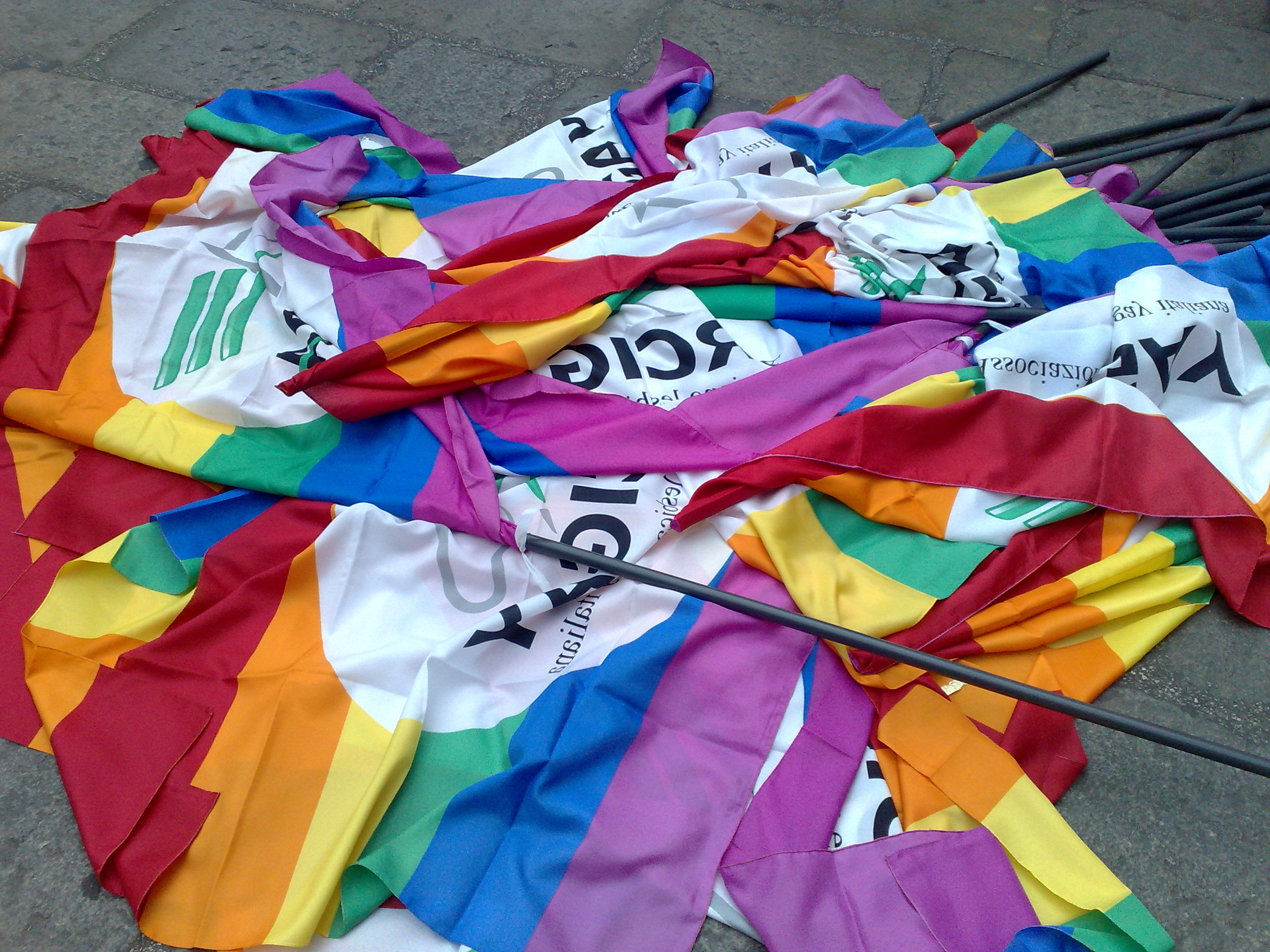 Bologna Pride 2008